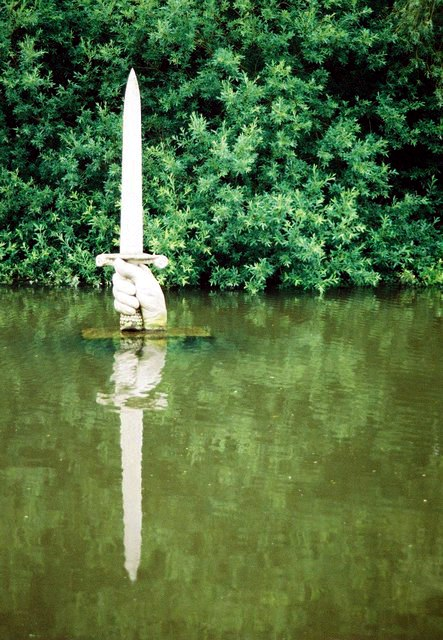 A sculpture of the sword given to King Arthur by the Lady of the Lake, in the lake of Kingston Maurward gardens